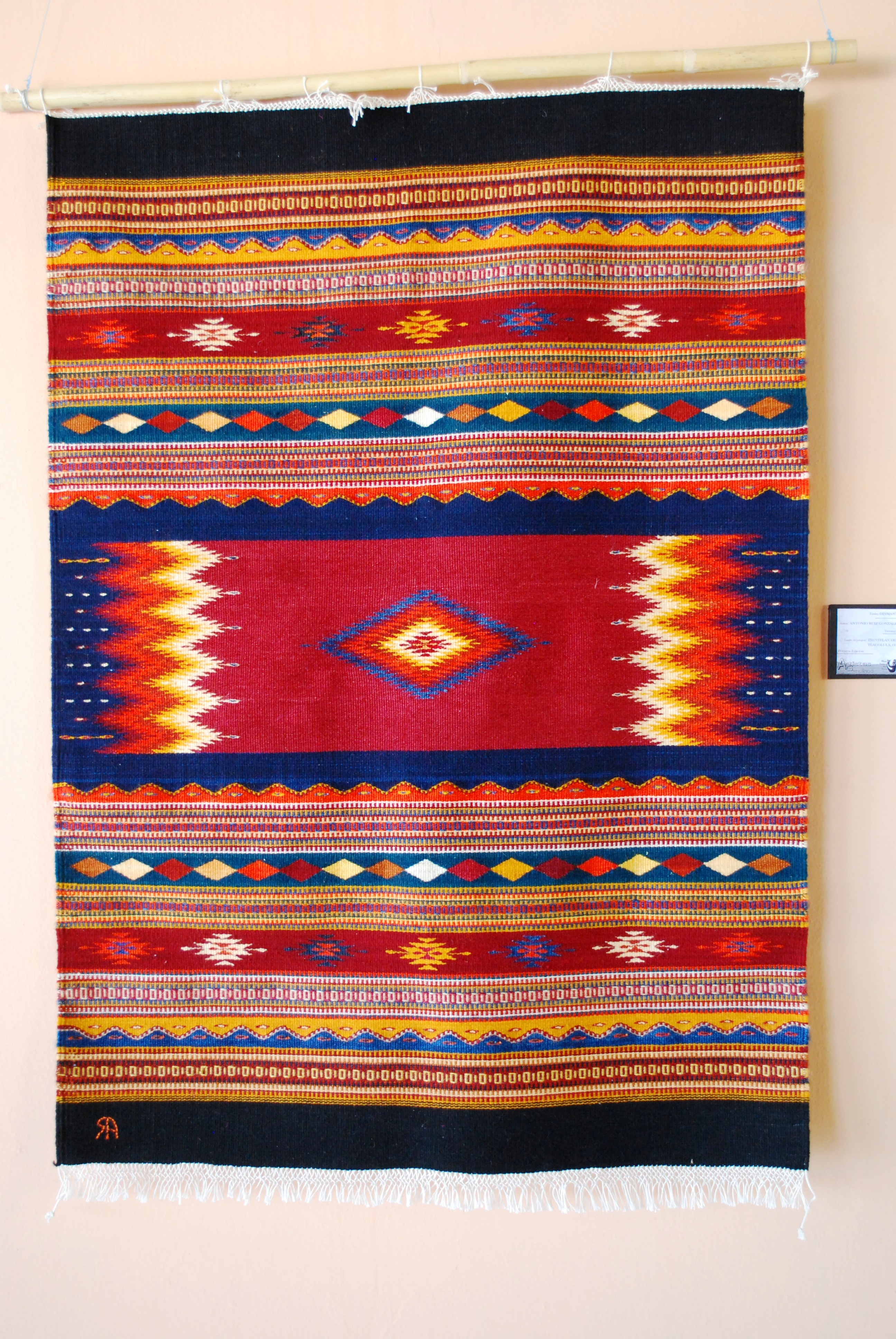 "Diamante Ojo de Dios" by Antonio Ruiz Gonzalez of Teotitlan del Valle at Museo Estatal de Arte Popular de Oaxaca in San Bartolo Coyotepec, Oaxaca, Mexico. See COM:CRT/Mexico#Freedom of panorama